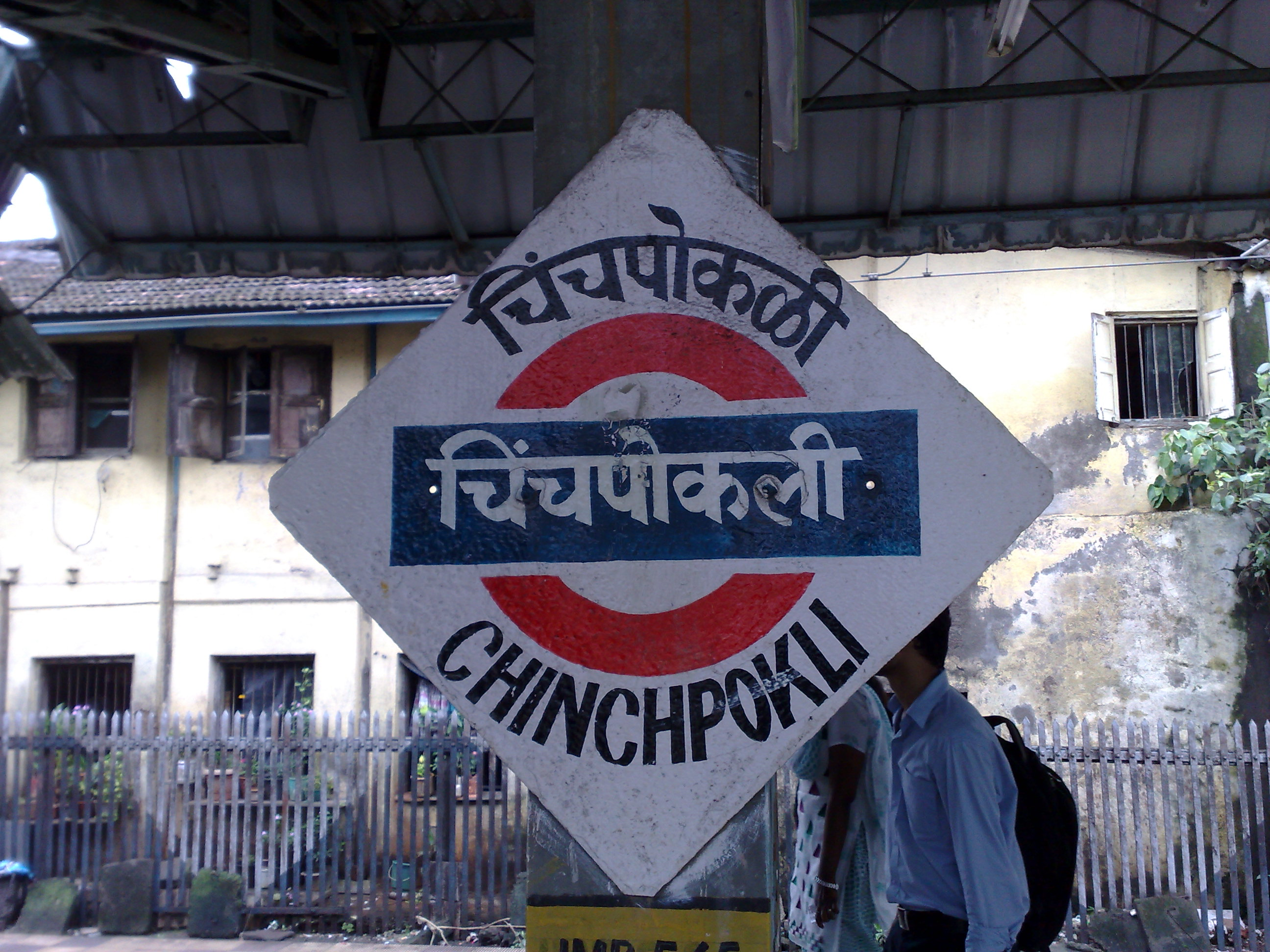 Chinchpokli platformboard